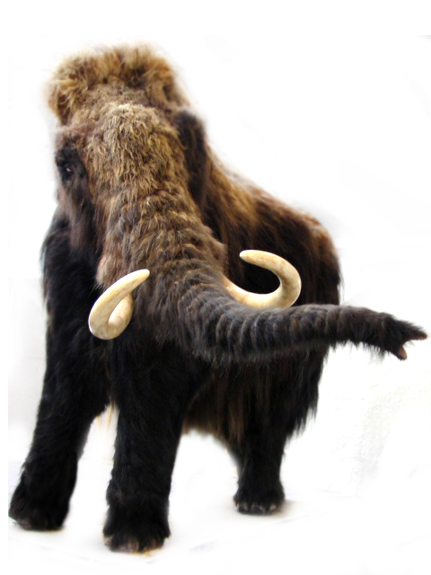 Woolly mammoth at Naturkundemuseum Stuttgart, by